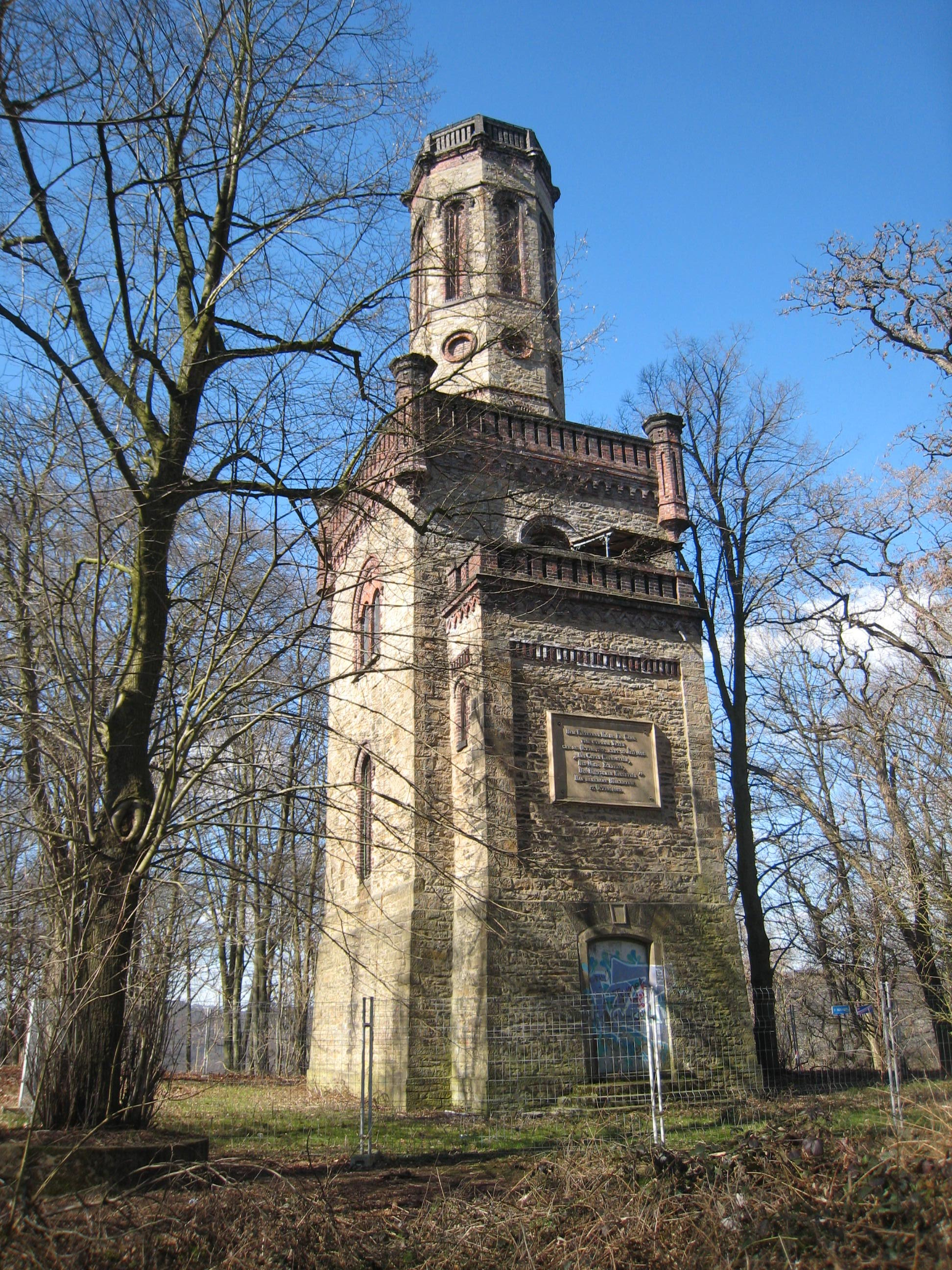 Freiherr-vom-Stein-Tower in Hagen